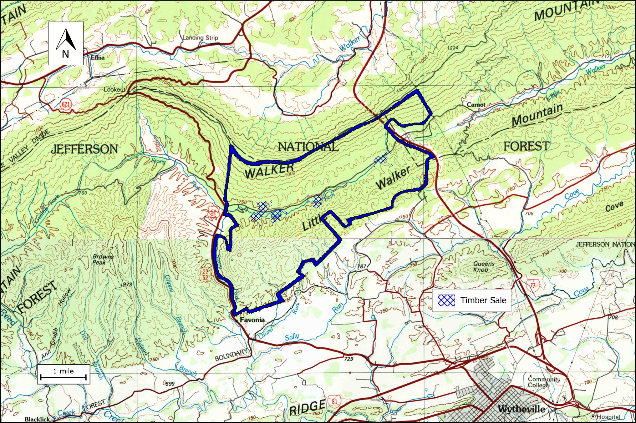 Boundary of the Seven Sisters wildland in the Jefferson National Forest as identified by the Wilderness Society